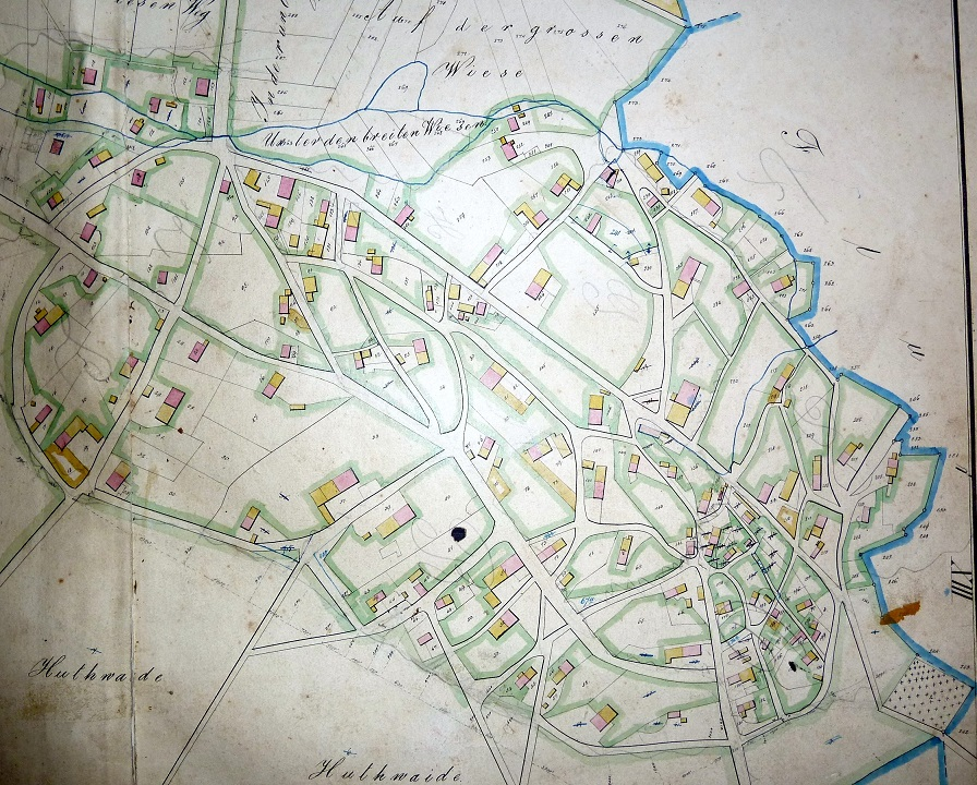 Parcel map of Bermuthshain from 1832.